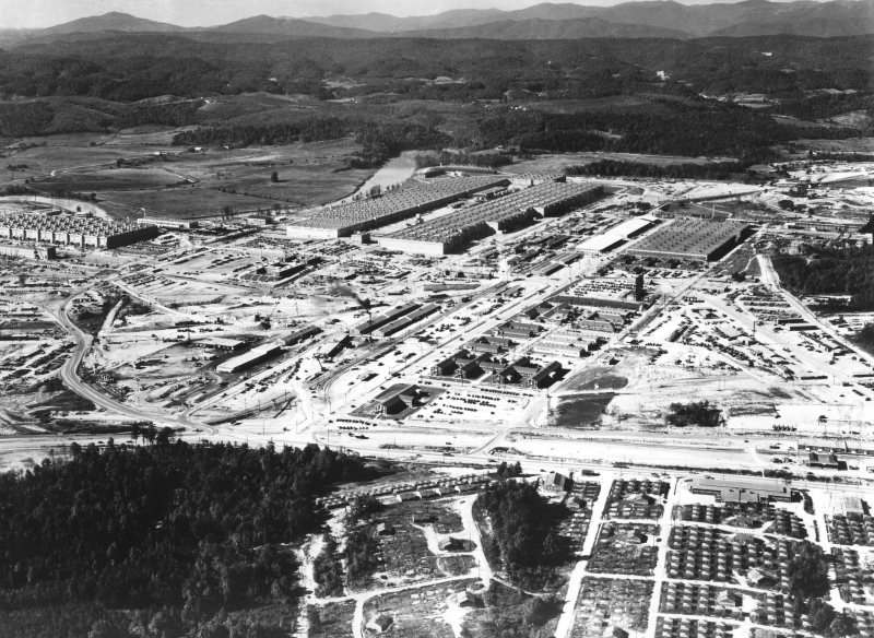 Photo of the construction of the K-25 plant at the end of the Oak Ridge reservation. This was the facility that used the gaseous diffusion method to enrich uranium by separating uranium-235 from uranium-238.